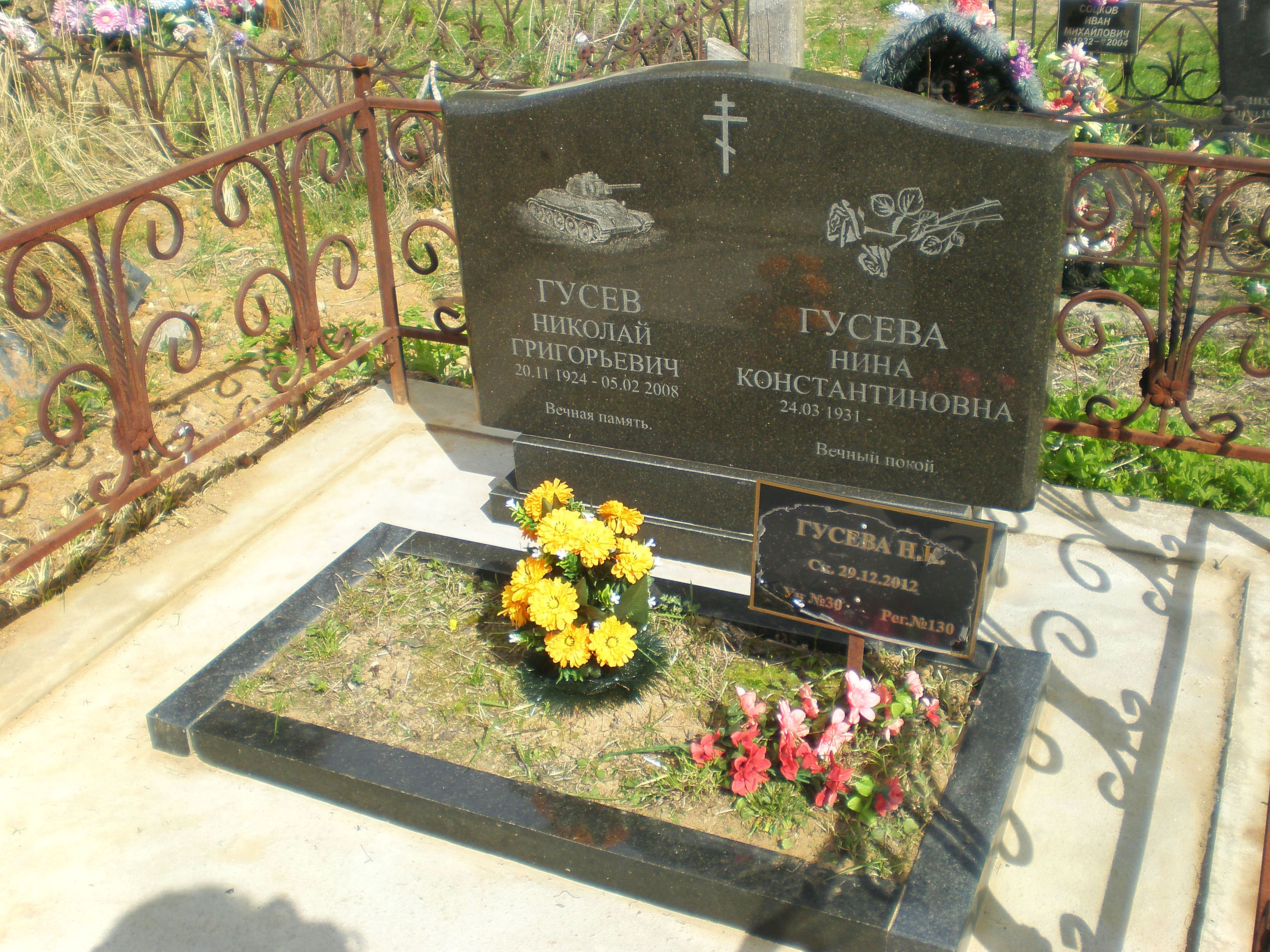 Могила Гусева